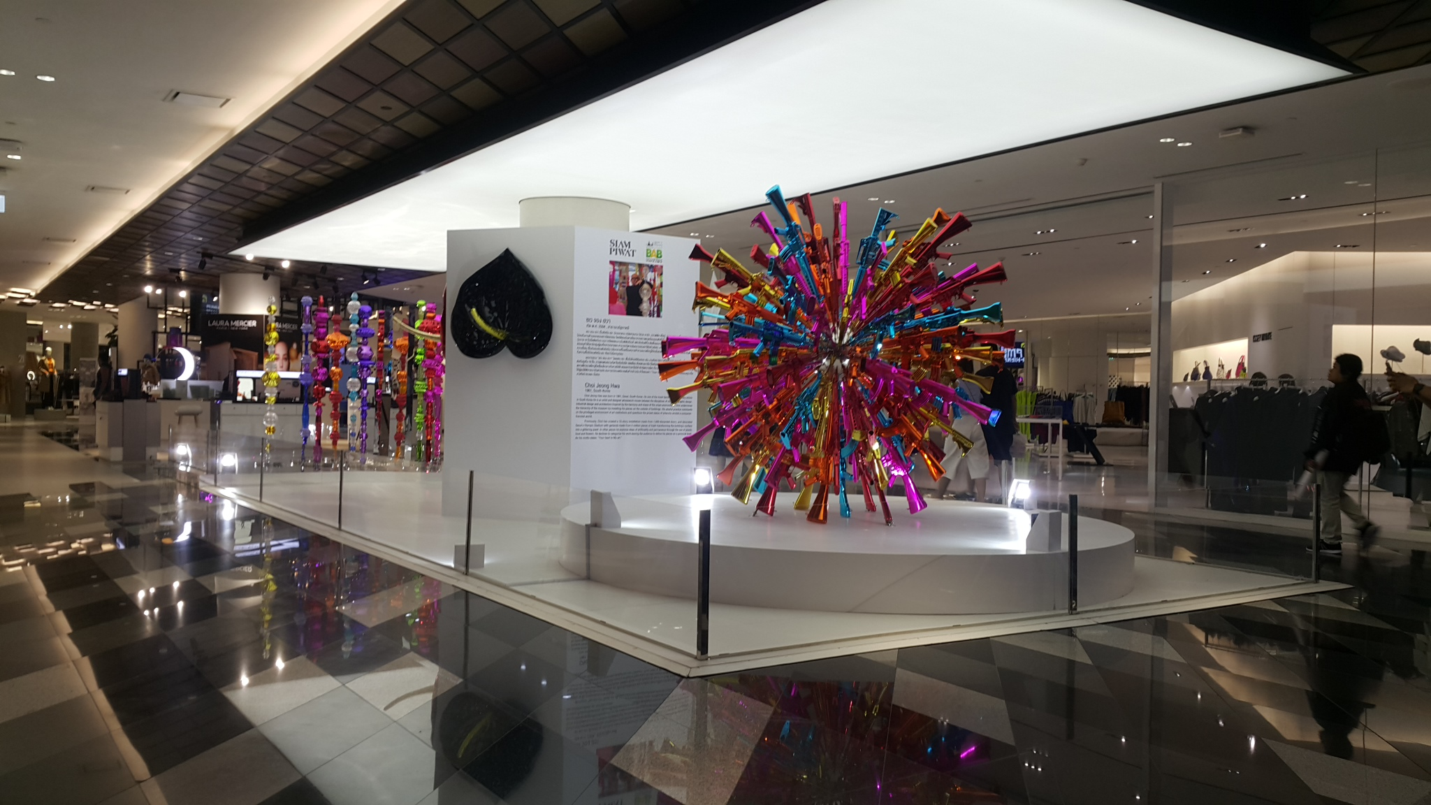 Bangkok Art Biennale 2018 บางกอก อาร์ต เบียนนาเล่ 2018